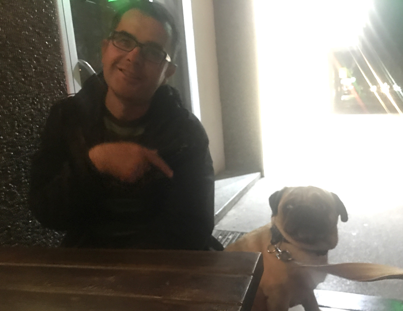 Montenegrin chess player Slavko Dedić with pug puppy, Podgorica downtown.